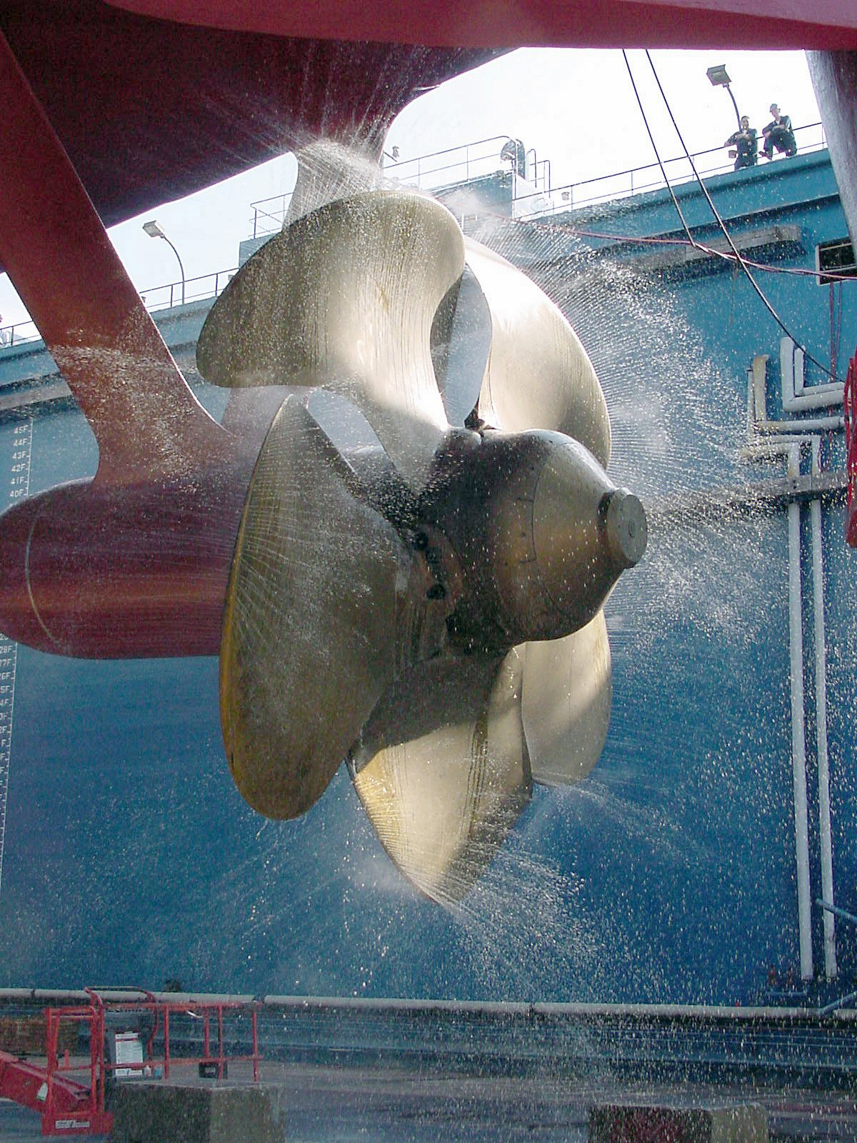 Aboard USS Winston S. Churchill (DDG 81) Aug. 5, 2002 -- Close up view of the shaft driver propeller under the port side stern of the US Navy (USN) ARLEIGH BURKE CLASS (FLIGHT IIA) GUIDED MISSILE DESTROYER (AEGIS), USS WINSTON S. CHURCHILL (DDG 81) as water and air are forced through the propellers of the Churchill to test the ship's Prairie system that reduces sound level generated by cavitation from the screws while underway. The ship is near the end of a $25 million Post Shakedown Availability (PSA) at Bath Iron Works in Bath, Maine. It will soon depart for her homeport of Norfolk, Va. and join the USS Theodore Roosevelt battle group. U.S. Navy photo by Intelligence Specialist 1st Class Holly Hogan. (RELEASED to Public)